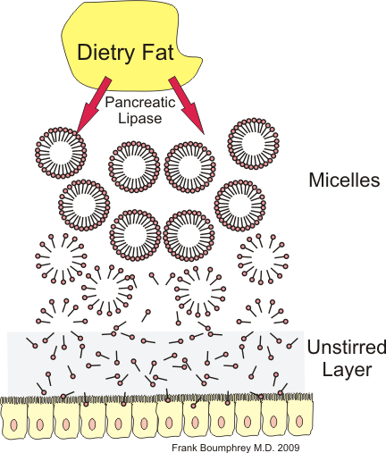 Lipid digestion, the formation of micelles in the presence of bile salts and passage of micelles and fatty acids through the unstirred layer